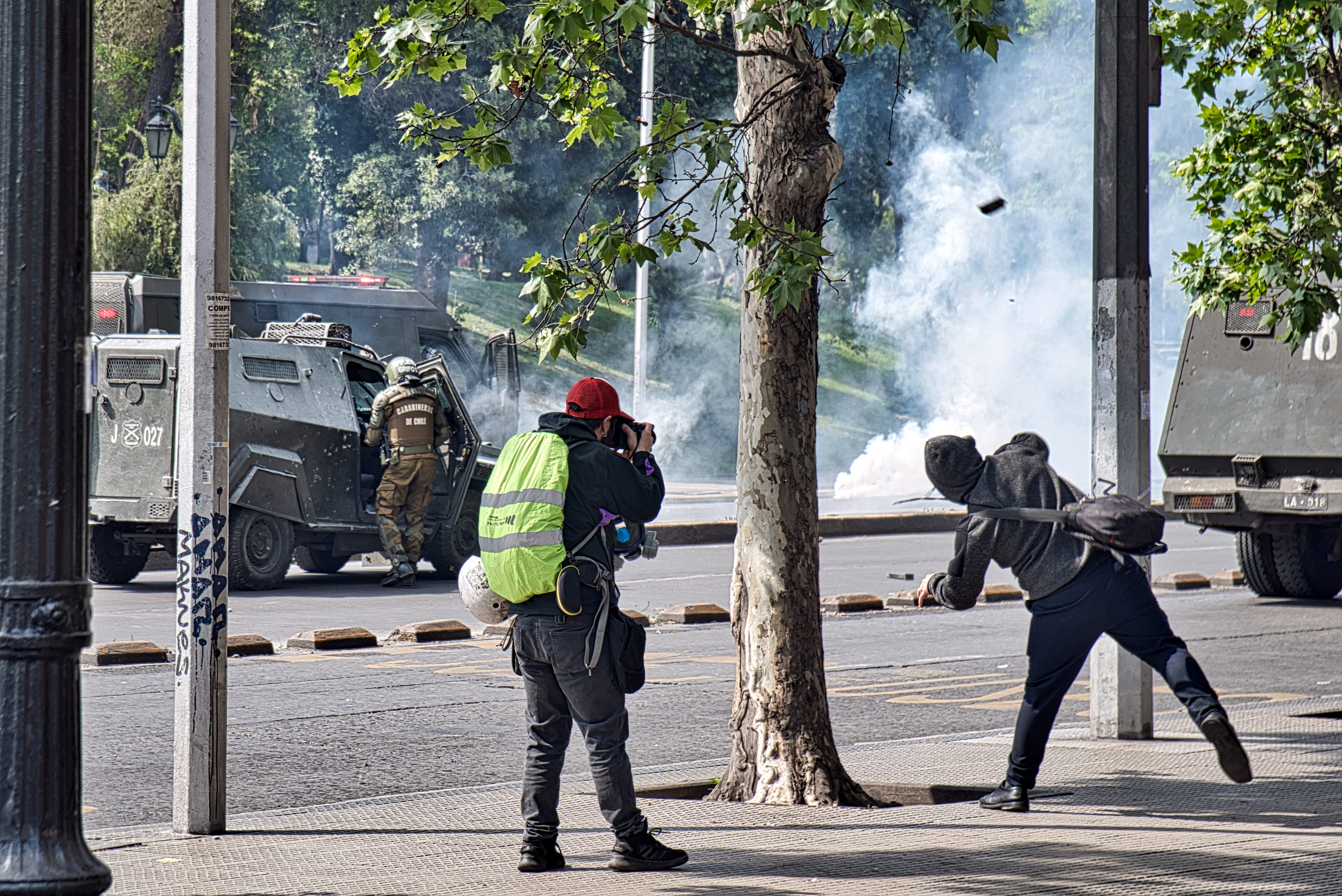 Piedras lanzadas a carabineros durante las protestas en Santiago.